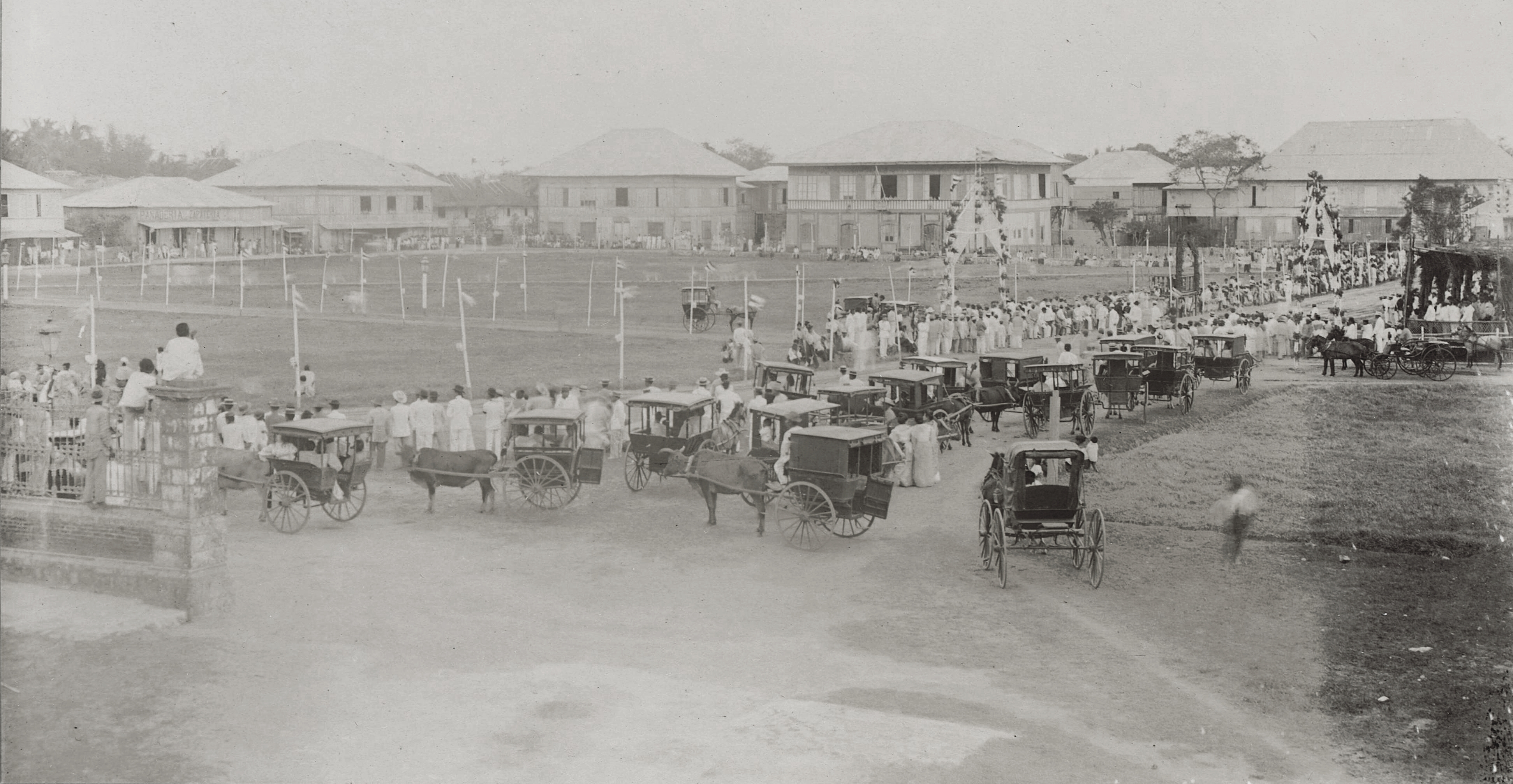 Bacolod Public Plaza during bicycle races in 1901, Municipality of Bacolod, Western Negros, United States Territory (presently: City of Bacolod, Negros Occidental, Philippines). The "bicycles" are actually two-wheeled single horse-drawn carriages. In the Philippines, it is known as calesa or carretela .